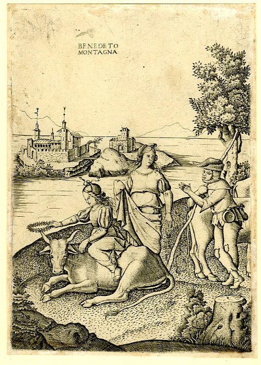 Benedetto Montagna, engraving, The rape of Europa, who prepares to sit on the bull which is being crowned by a companion